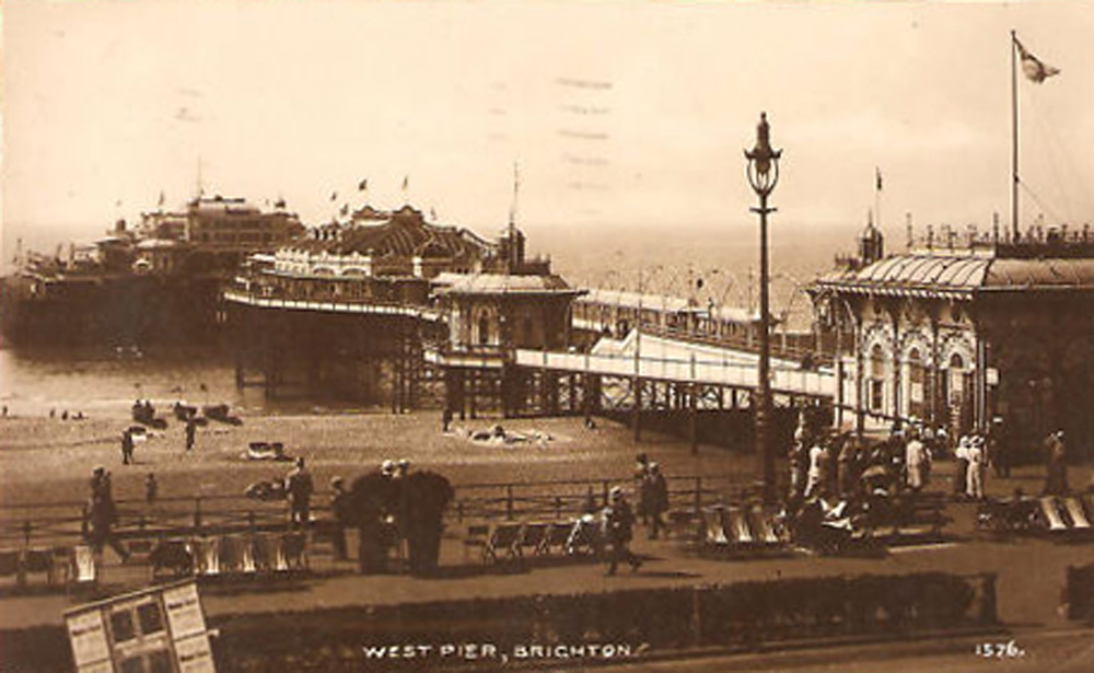 West Pier, Brighton circa 1920. In 1916 a large concert hall was erected in the central part of the pier. After this the pier was essentially unchanged.